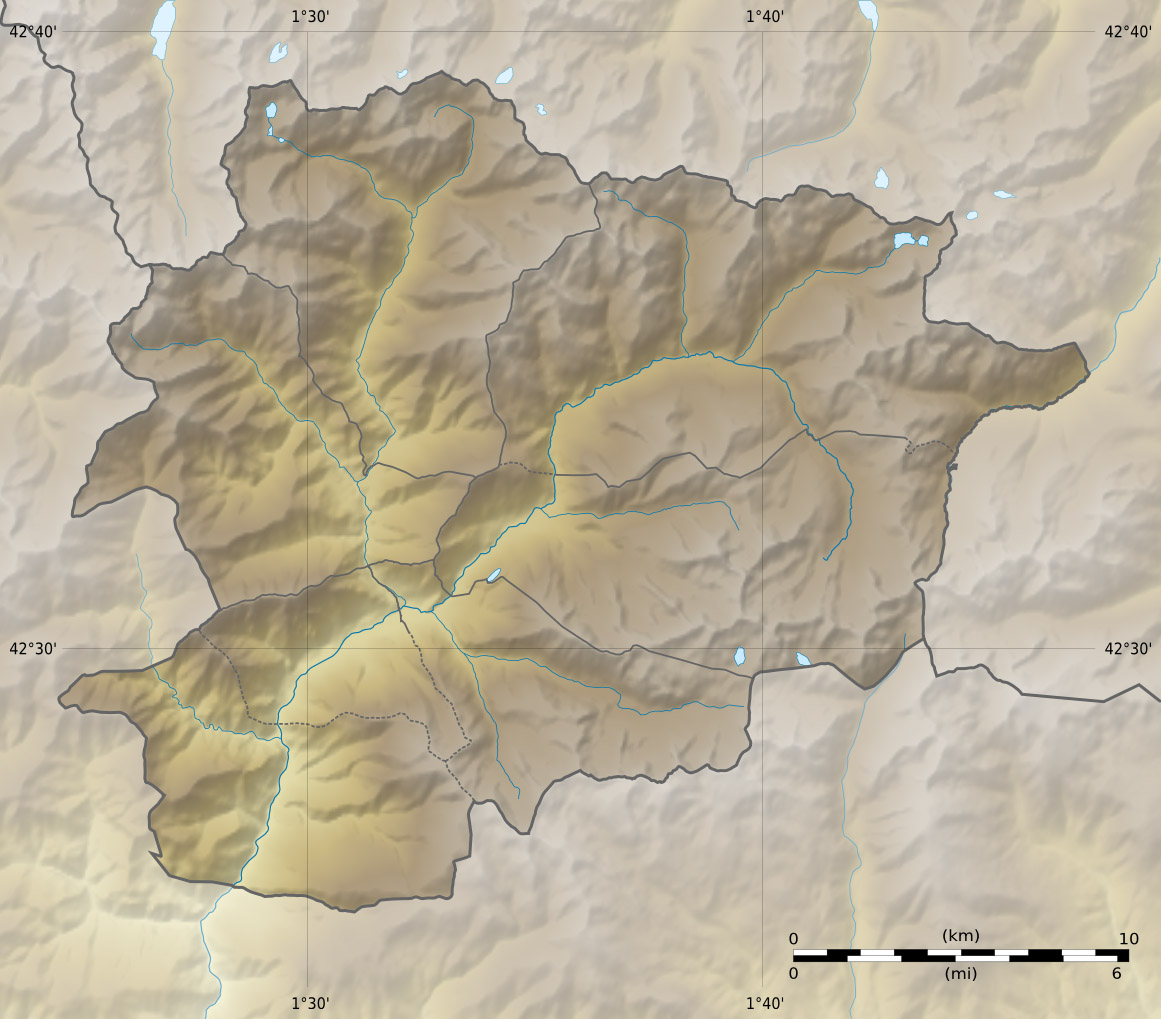 Blank physical map of Andorra with parishes boundaries for geo-location purpose. Note: Dotted lines are boundaries estimated from very small scale reference maps.